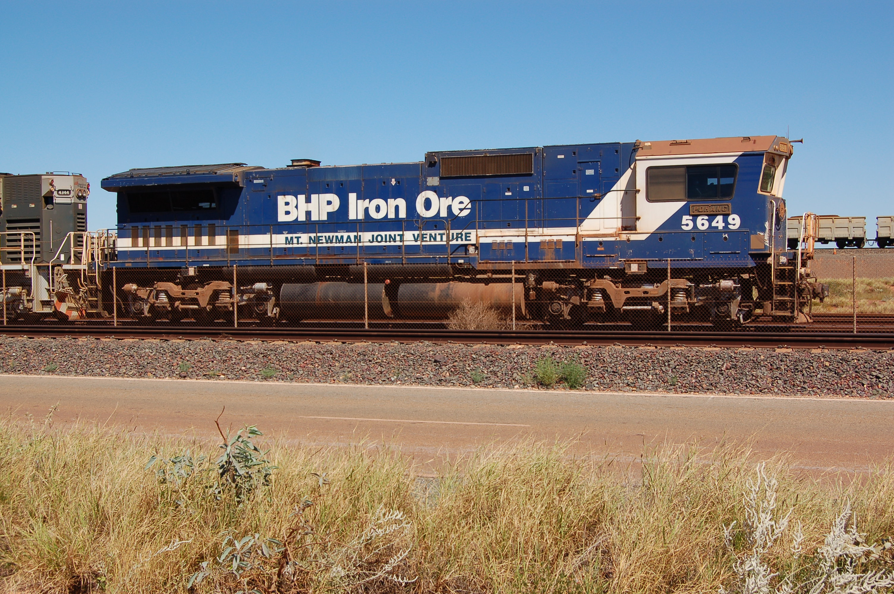 BHP Billiton Iron Ore GE CM40-8M no. 5649 Pohang, at the head of a loaded train at Boodarie, near Port Hedland, Western Australia. The train was awaiting clearance to continue towards the Finucane Island loop, at the northern end of the Goldsworthy railway, to unload.